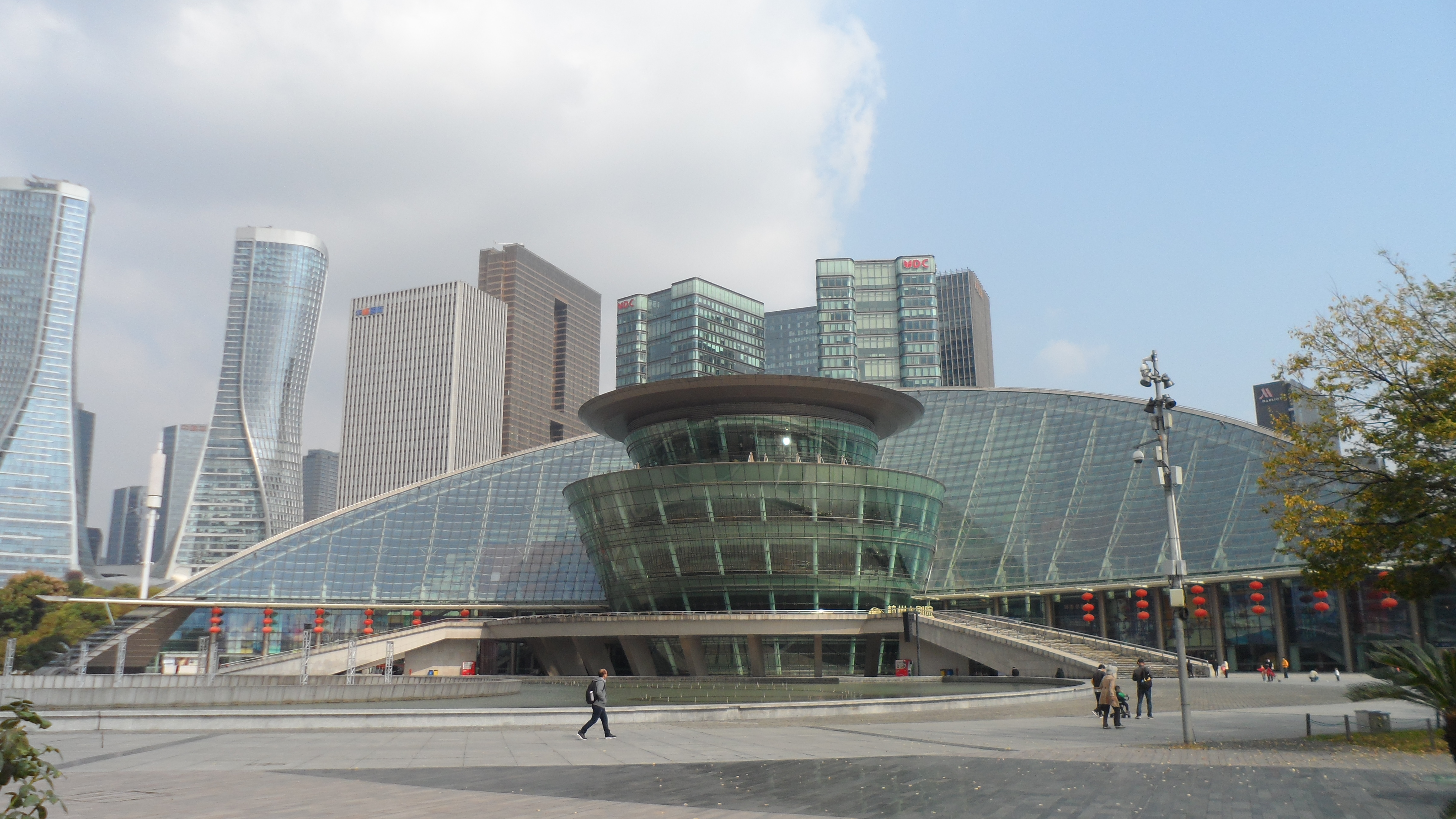 Hangzhou Grand Theatre, Zhejiang